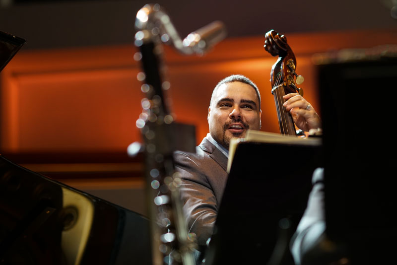 Carlos Henriquez (Denmark 2020) playing with Jazz at Lincoln Center Orchestra